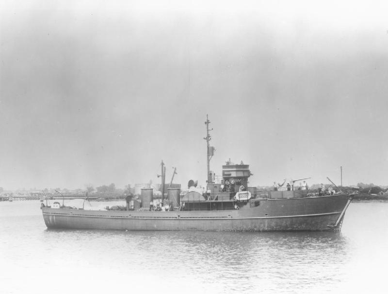 British Yard Minesweeper 2030 Stationary.